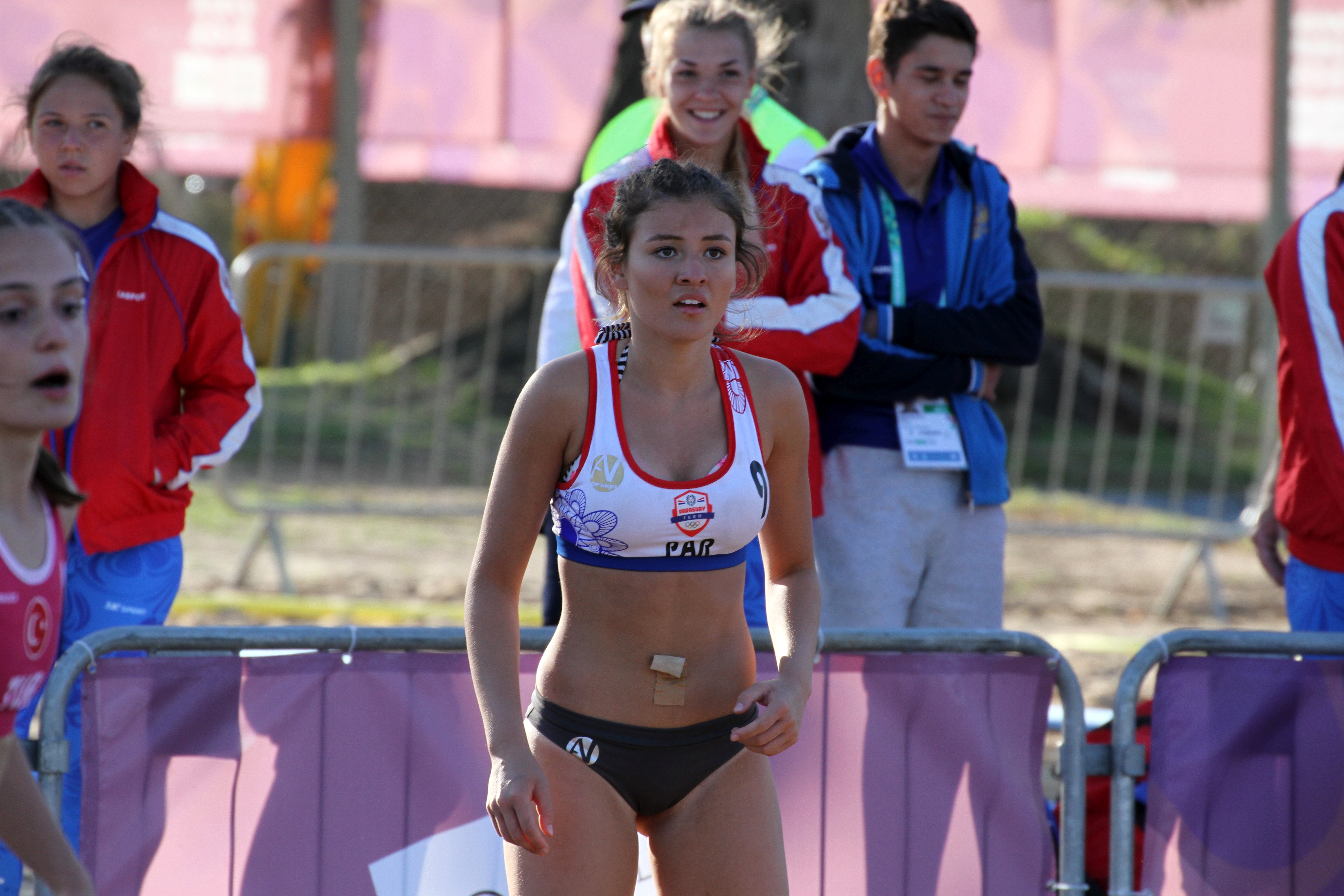 Beach handball at the 2018 Summer Youth Olympics at 9 October 2018 – Girls Preliminary Round Group B – Turkey-Paraguay 1:2